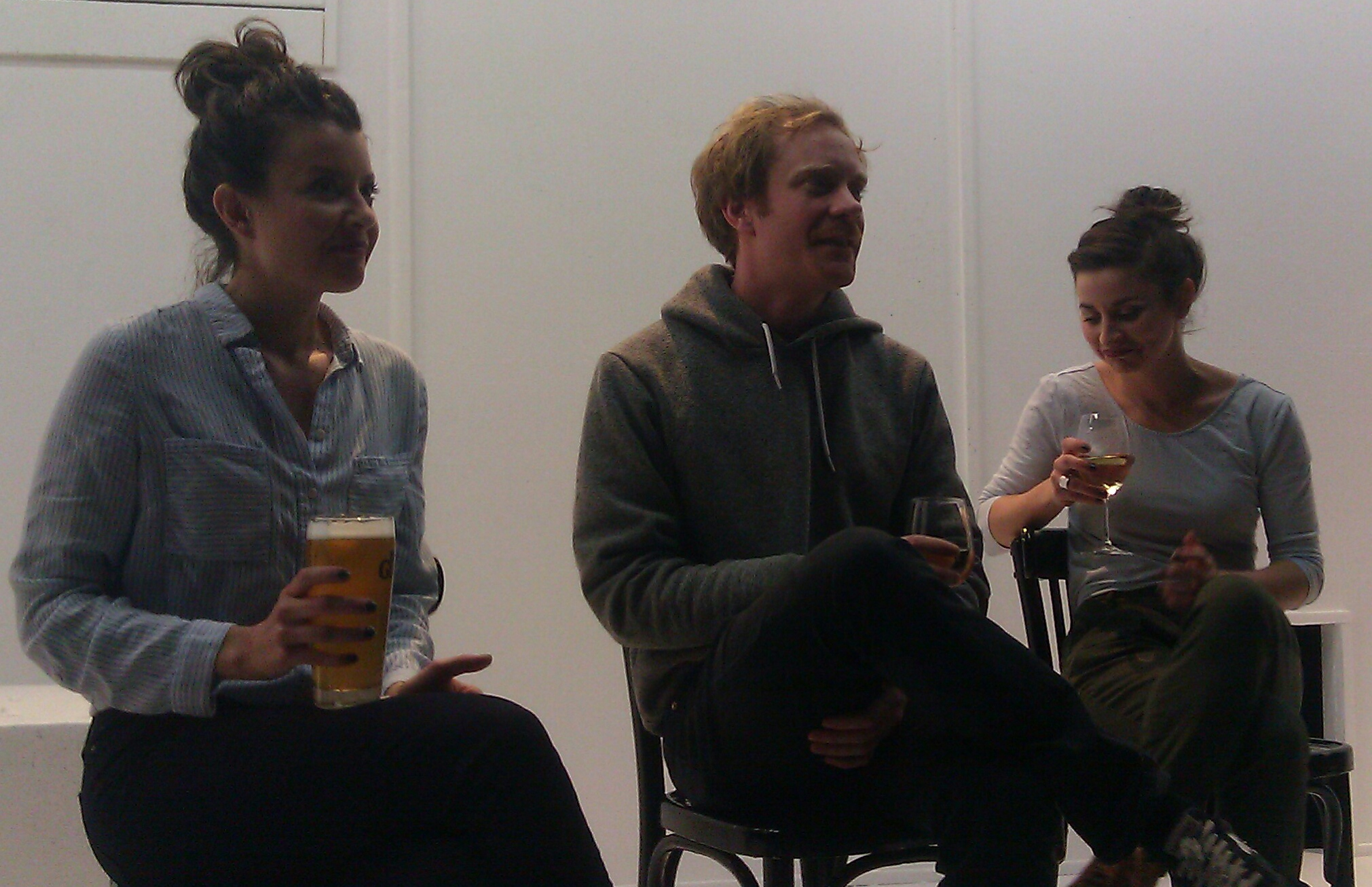 Sonia Cordeau photographed in Montreal, Quebec, Canada at the Théâtre La Licorne.